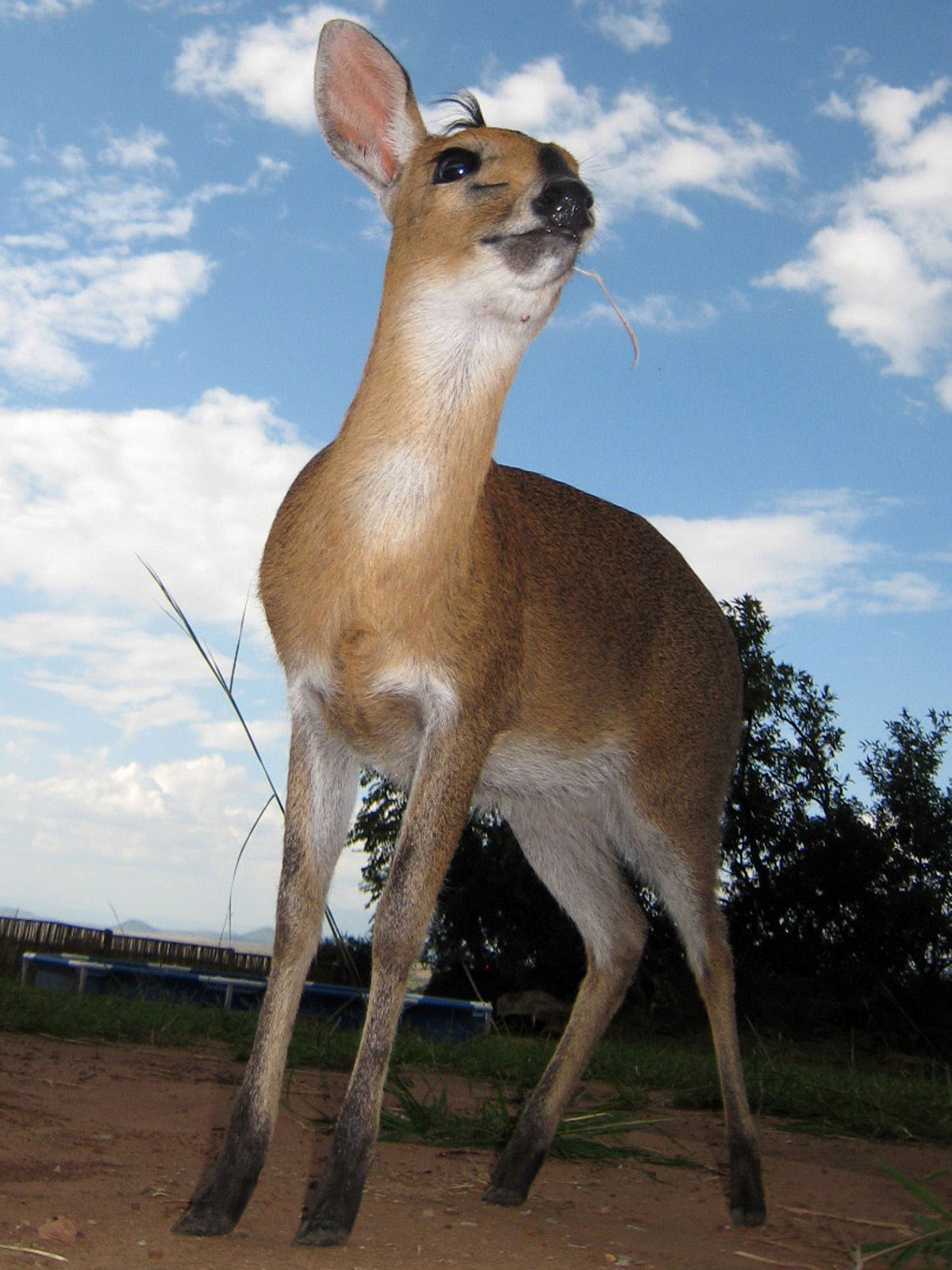 close-up photo of a juvenile common duiker, Sylvicapra grimmia, born in captivity and released into the wild in Kidepo Valley National Park, Uganda